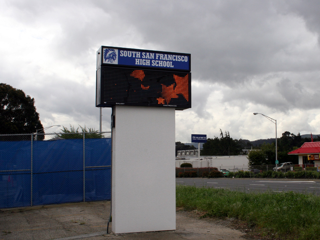 South San Francisco High School billboard.